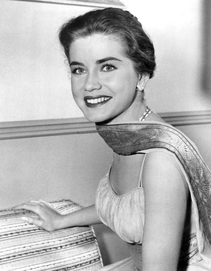 Photo of Dolores Hart from a guest appearance on The Du Pont Show. In 1963, Hart left acting to become a Roman Catholic nun.